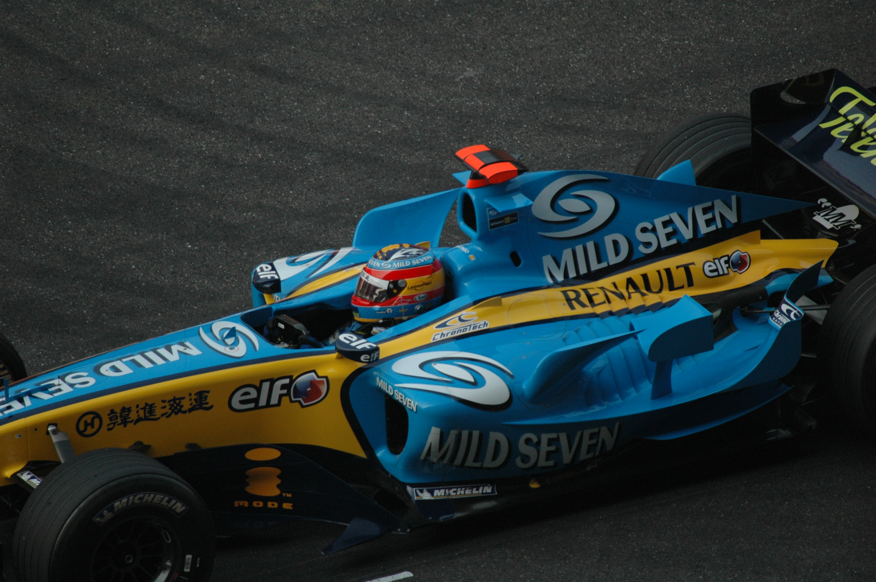 Fernando Alonso driving for Renault F1 at the 2005 Chinese Grand Prix.